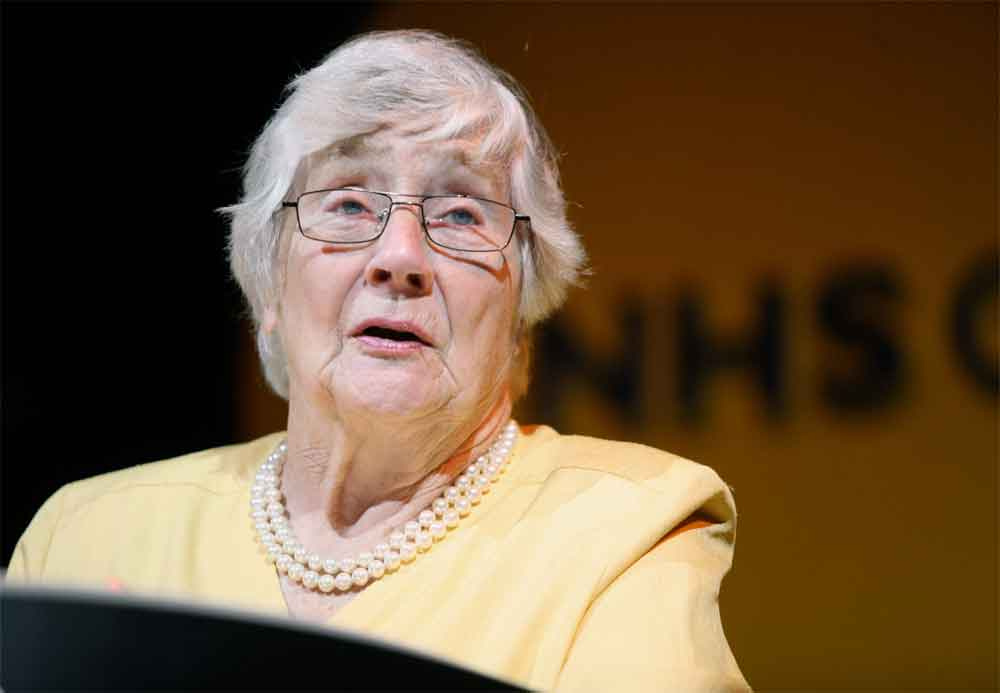 Shirley Williams speaking at the 2011 NHS Confederation annual conference, Manchester, England.